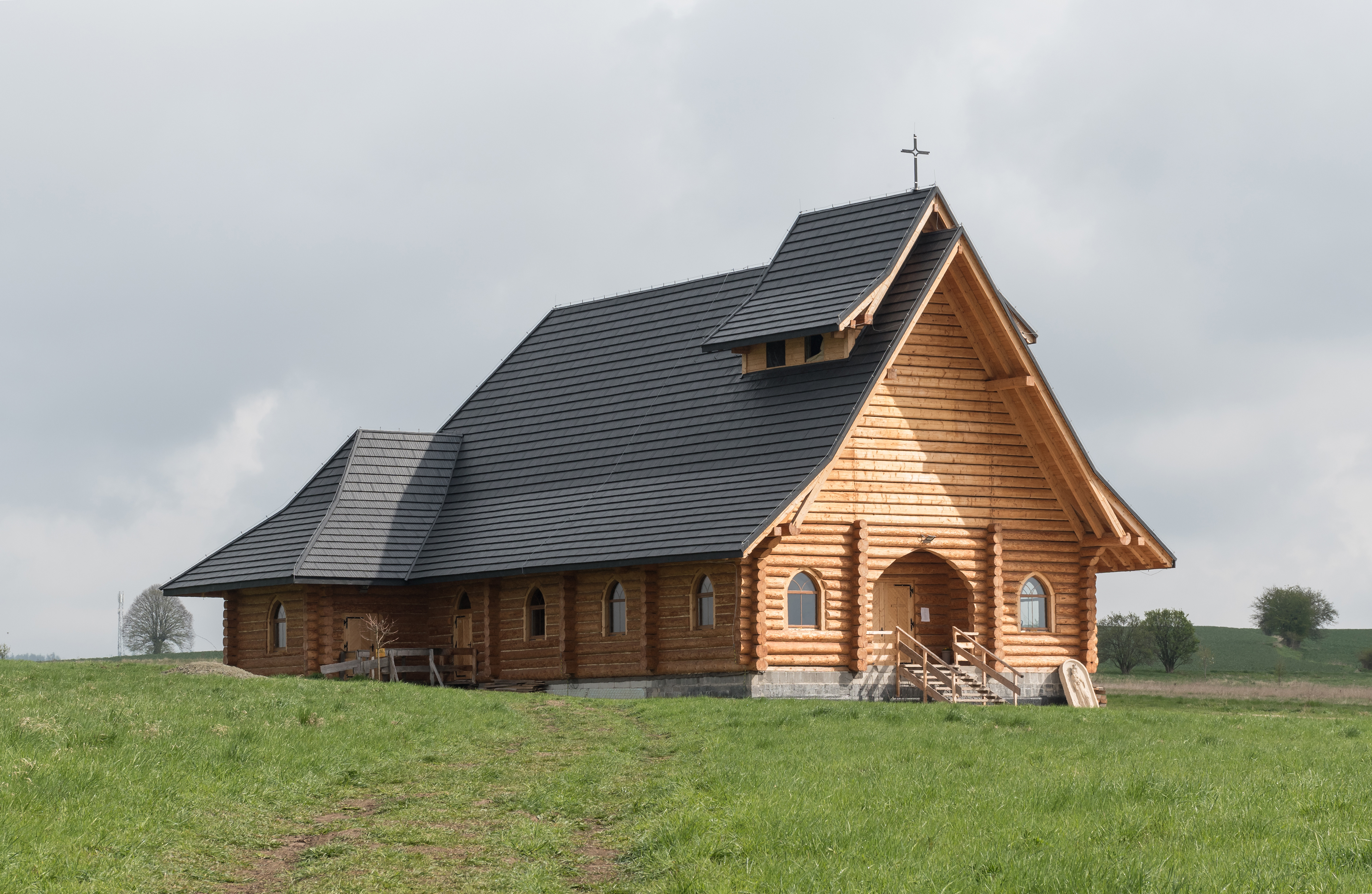 Ioannes Paulus II church in Kłodzko